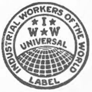 Industrial Workers of the World Universal Label circa 1917.